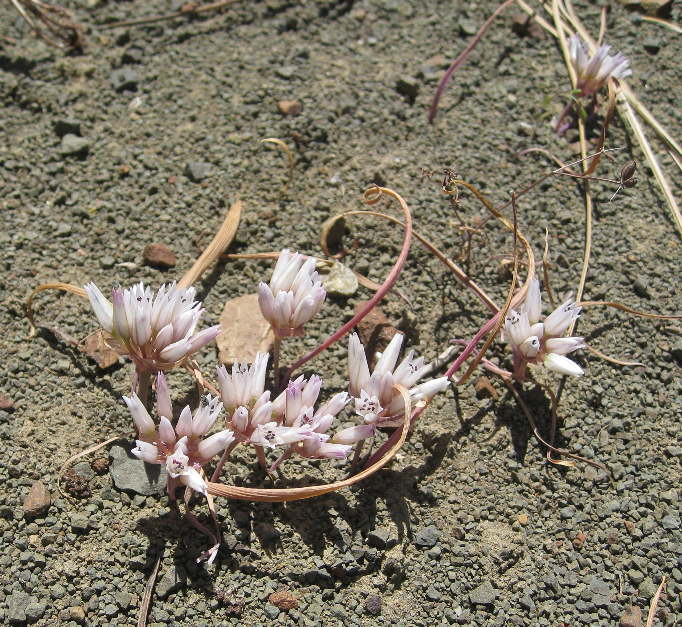 Mount Lillian Trail 1601, Wenatchee National Forest Chelan County, Washington, USA Elevation about 1700 m (5600) feet Northwestern Chapter of the. North American Rock Garden Society field trip to Tronsen Ridge 022